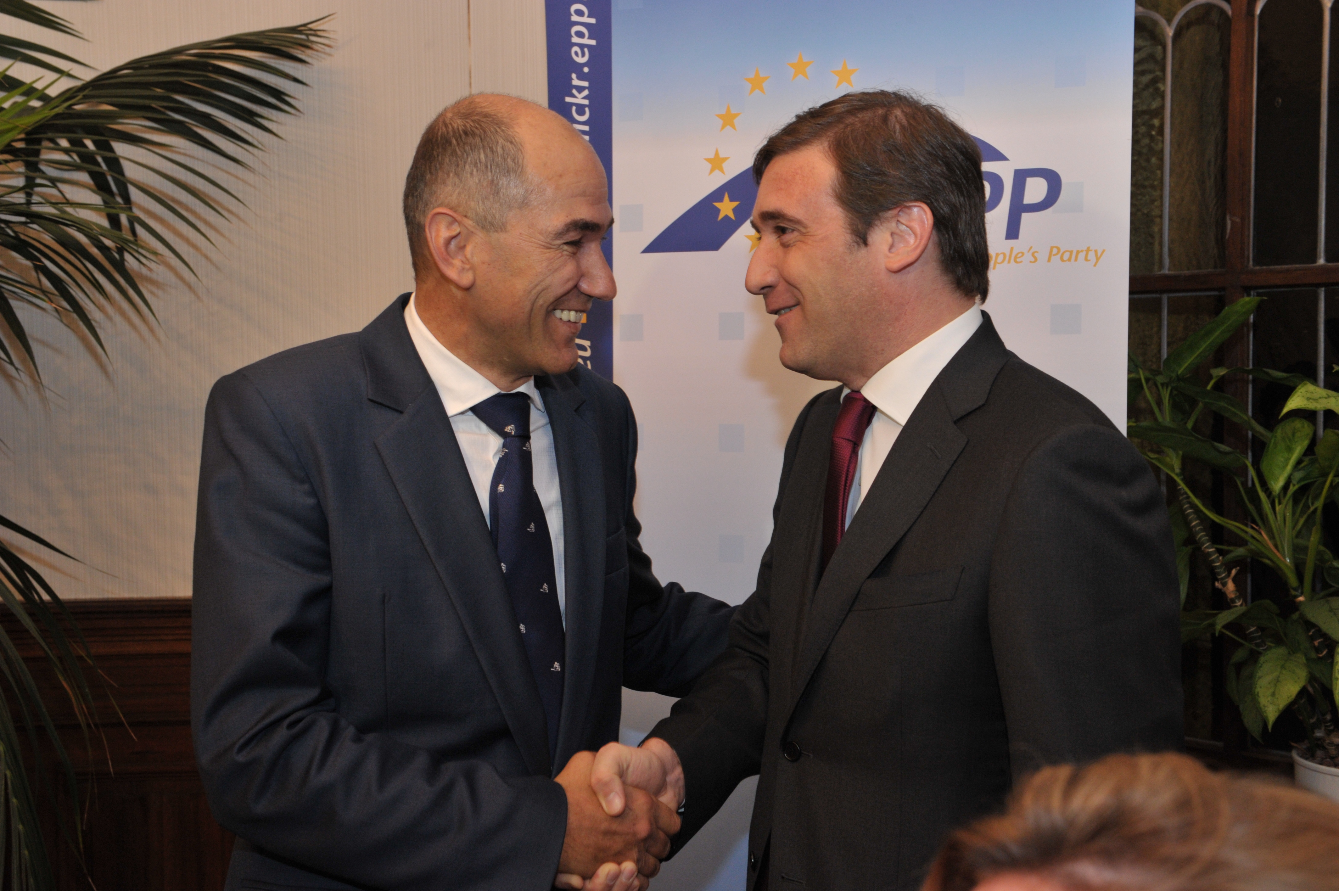 EPP Summit October 2011